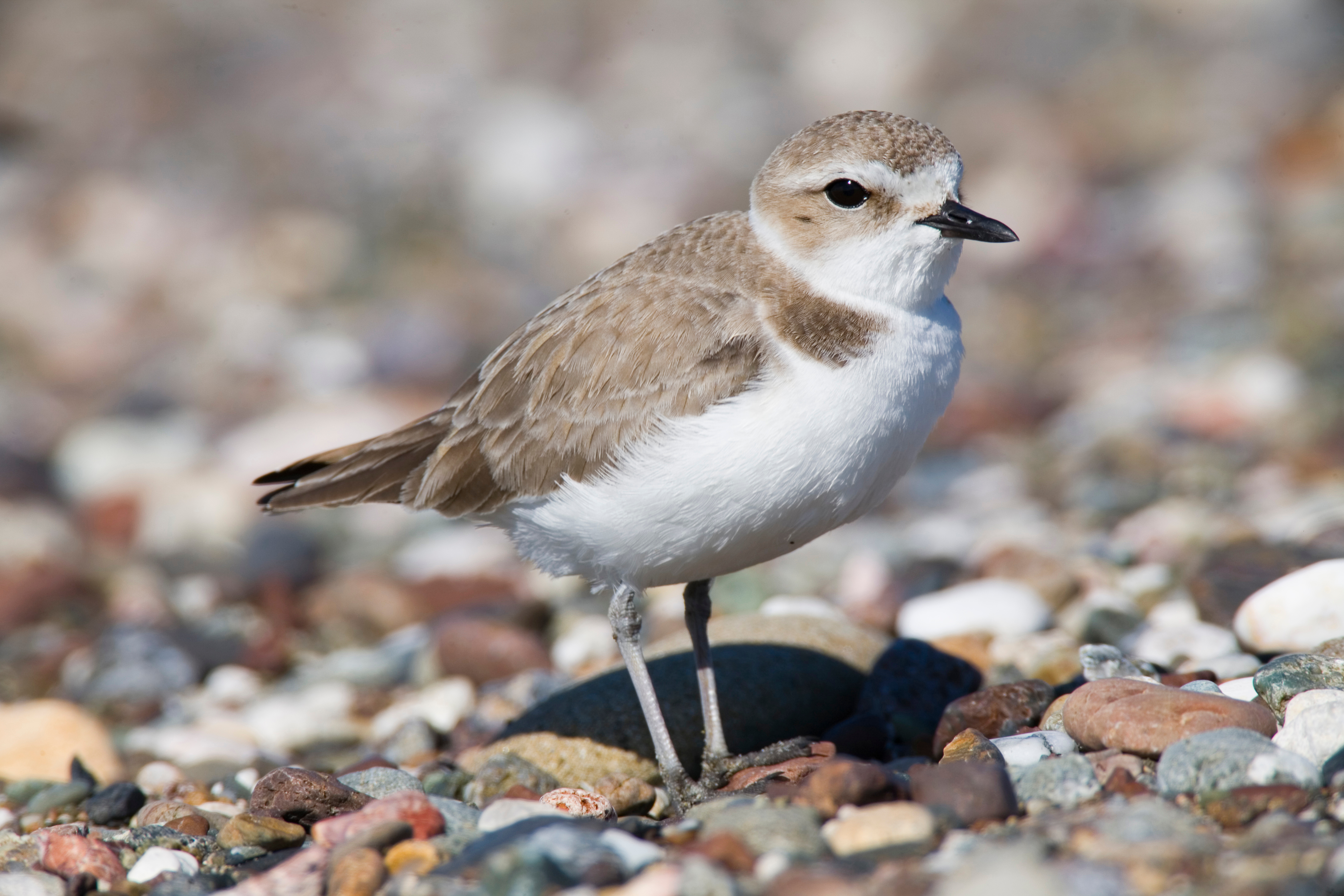 Western Snowy Plover south of Villa Creek, Estero Bluffs, a few miles north of Cayucos, CA.